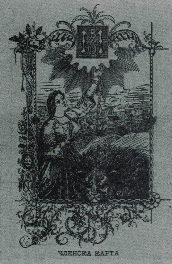 Membership Card of the Varna Macedonian-Adrianopolitan Society